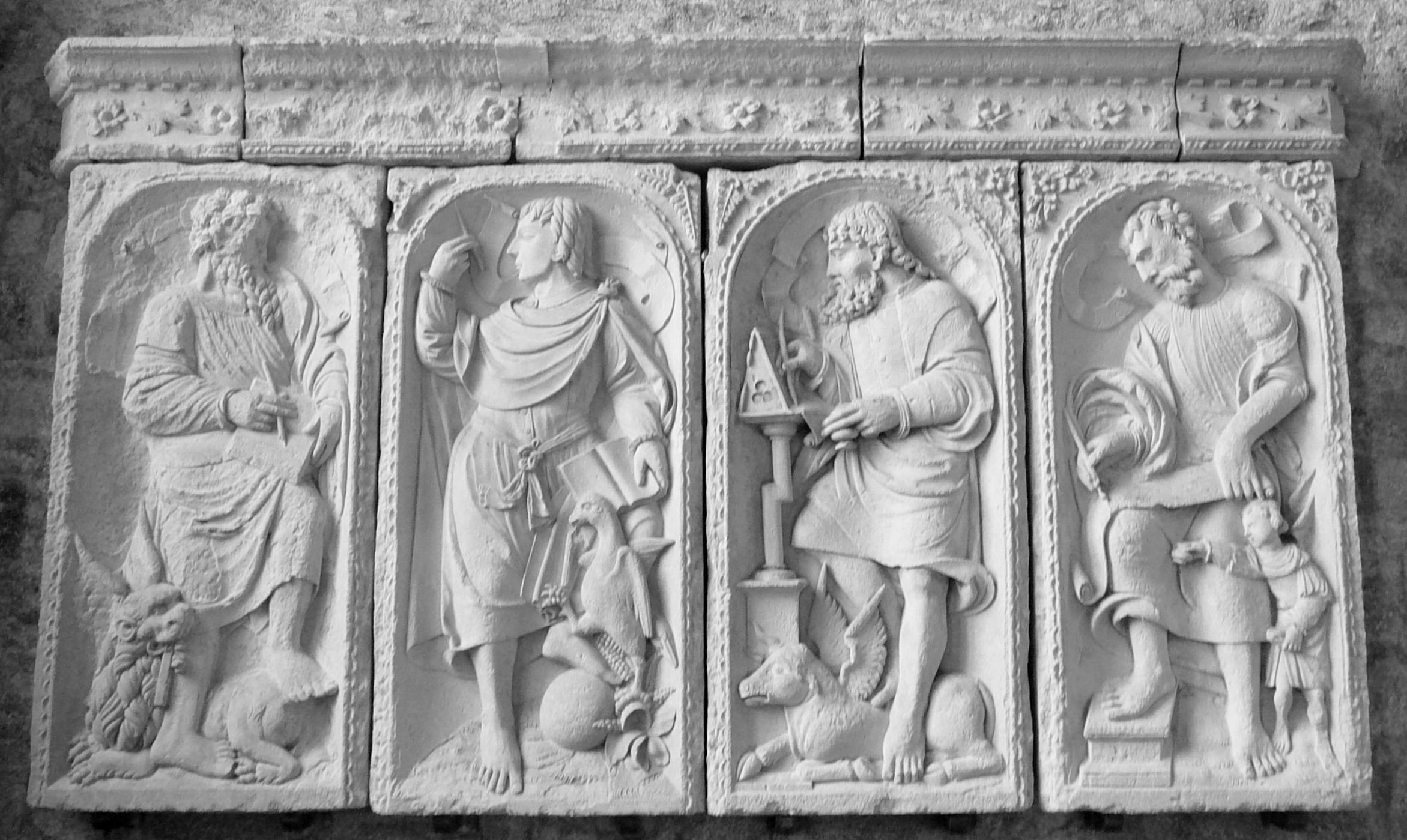 Four Evangelists in Mont Saint-Michel